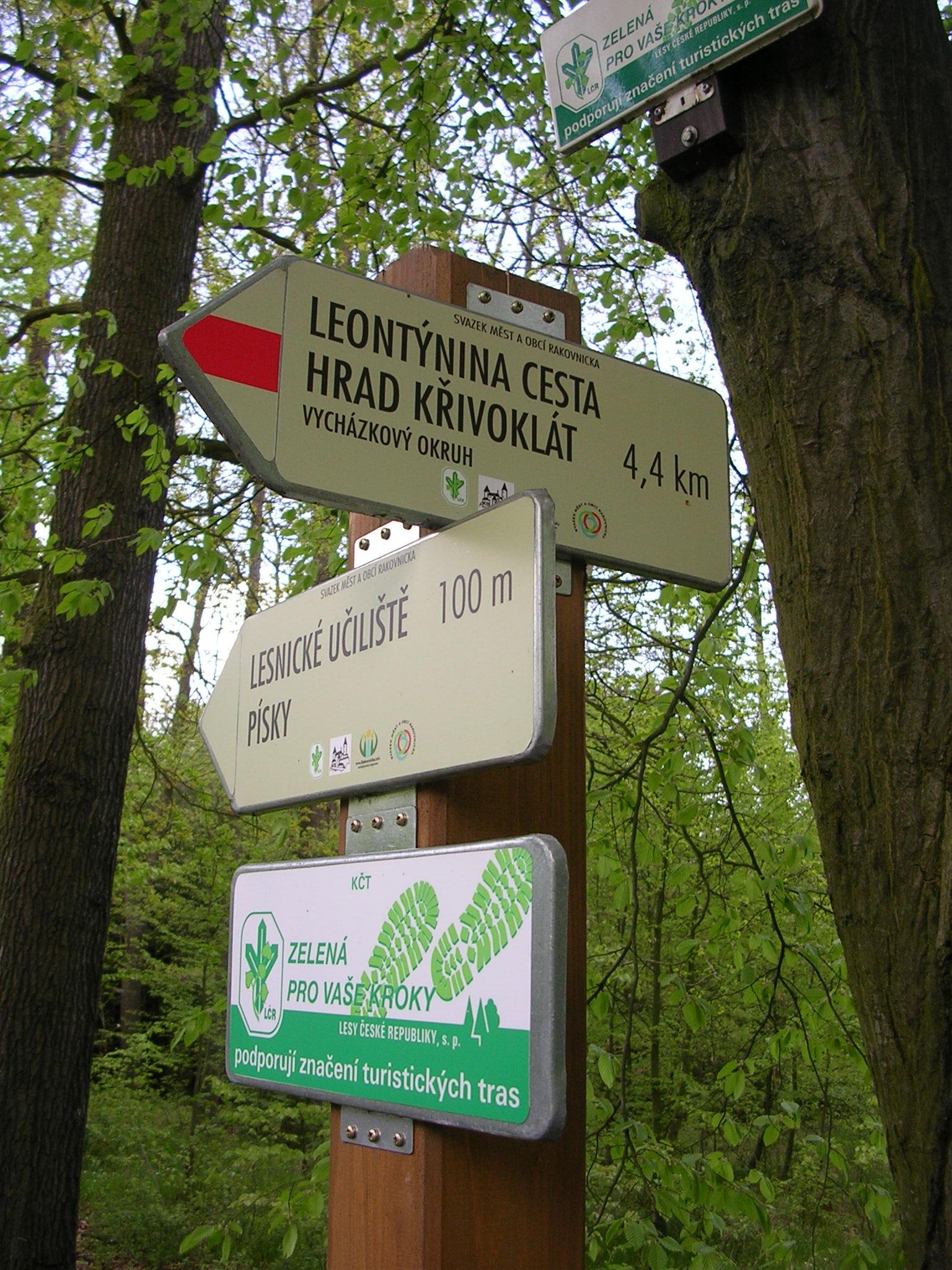 Křivoklát-Píska, the Czech Republic.